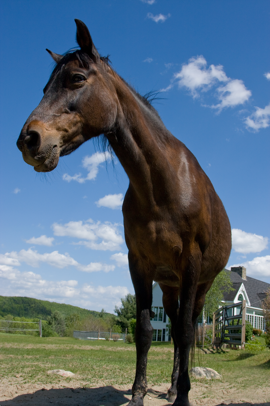 Morgan Horse mare